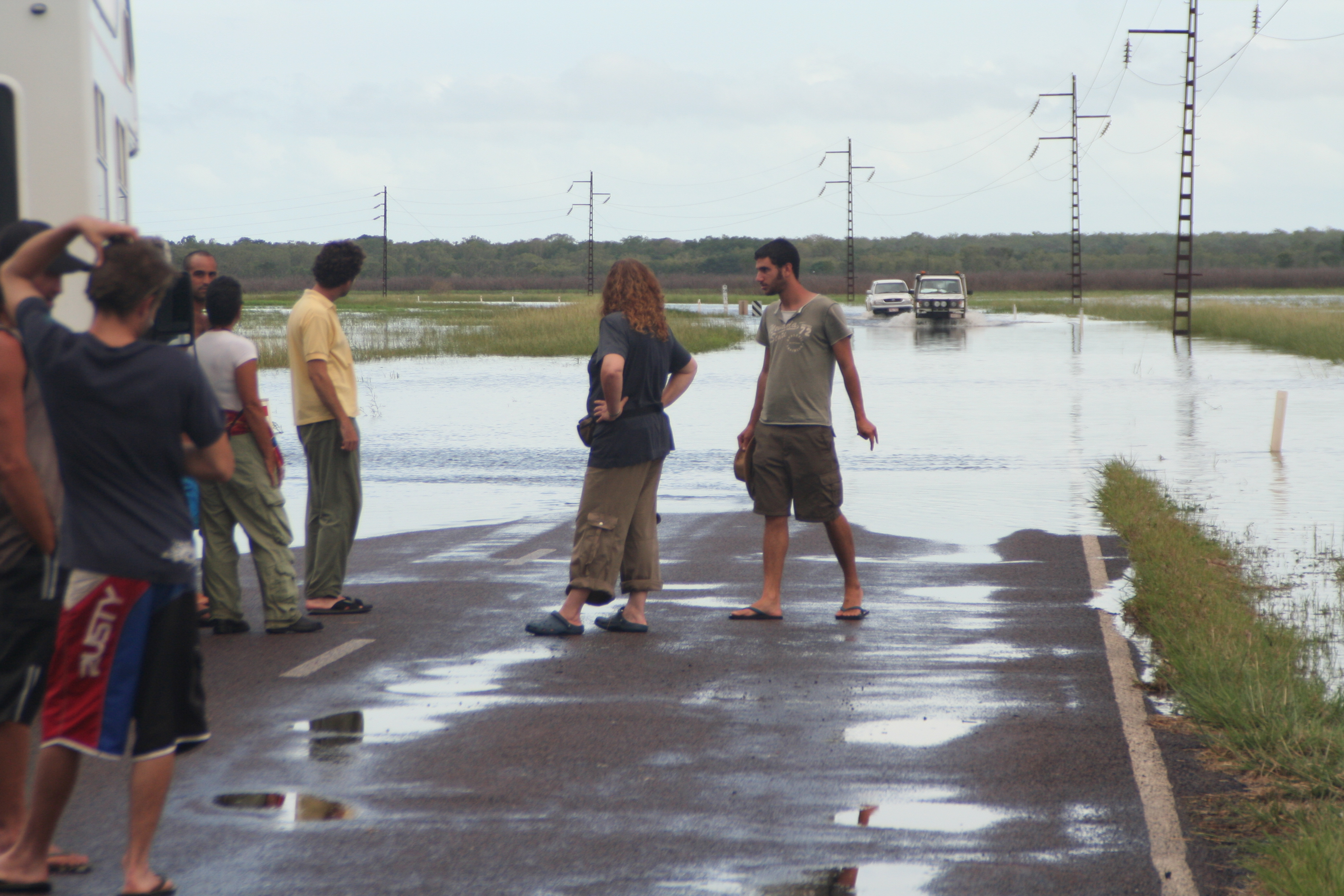 Arnhem Highway flooded during the wet season.